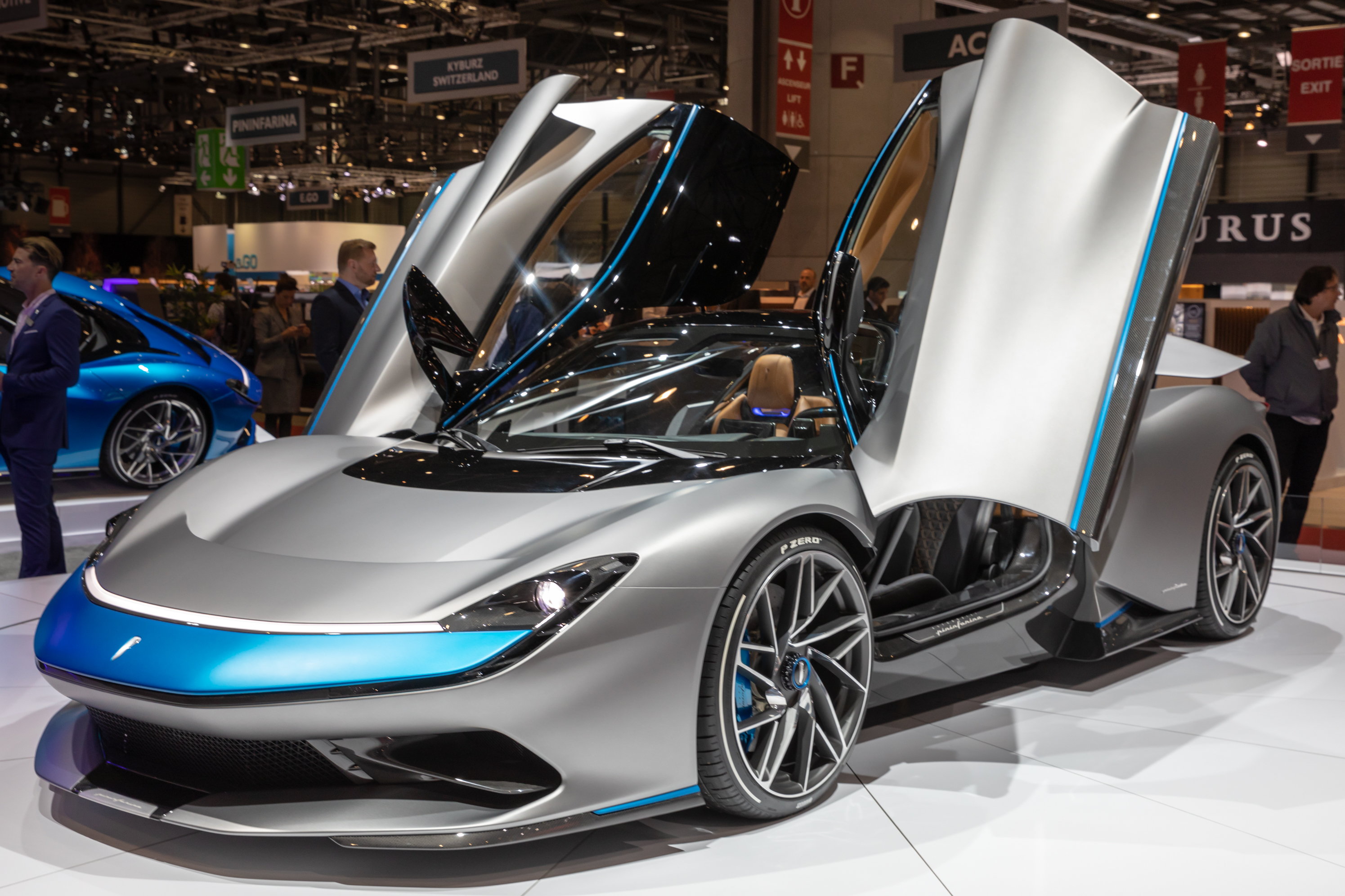 Pininfarina Battista at Geneva International Motor Show 2019, Le Grand-Saconnex